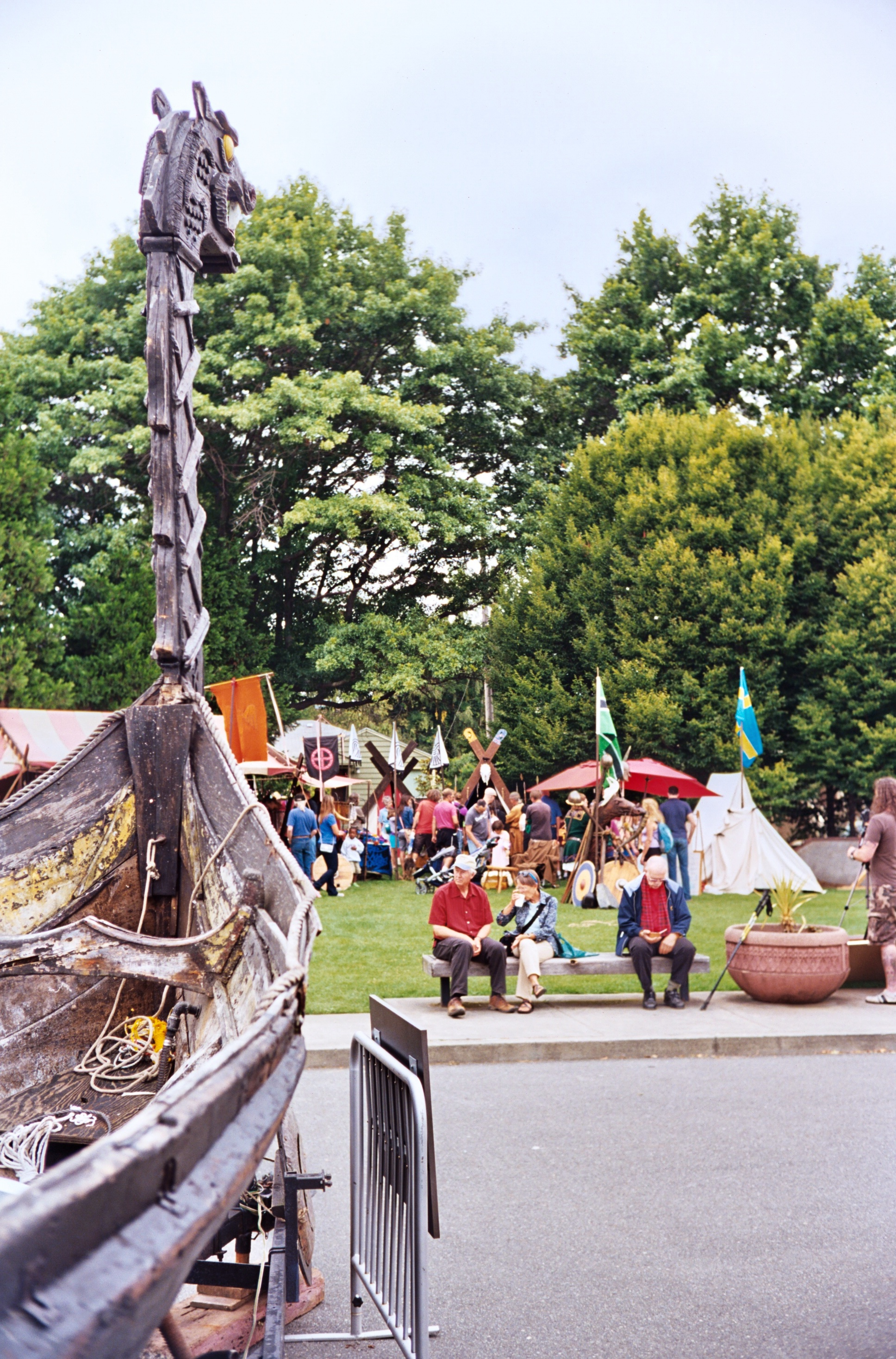 Ship and camp at Viking Days at Nordic Heritage Museum